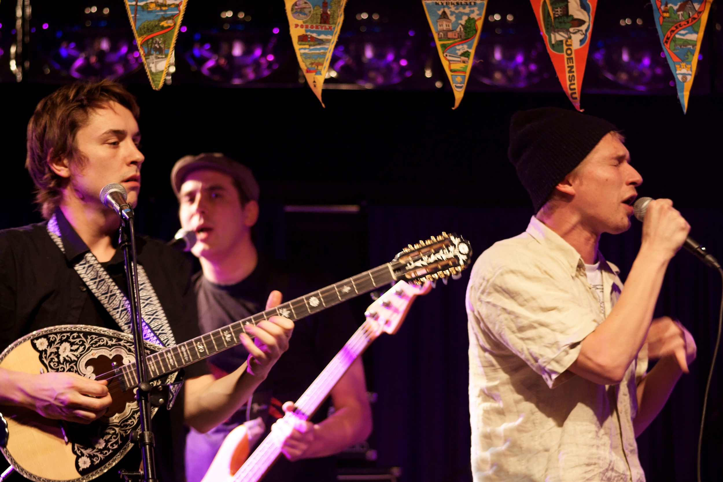 Joska Josafat, Rasmus Pailos and Asa from Asa & Jätkäjätkät performing at Bar Kino, Pori, Finland.